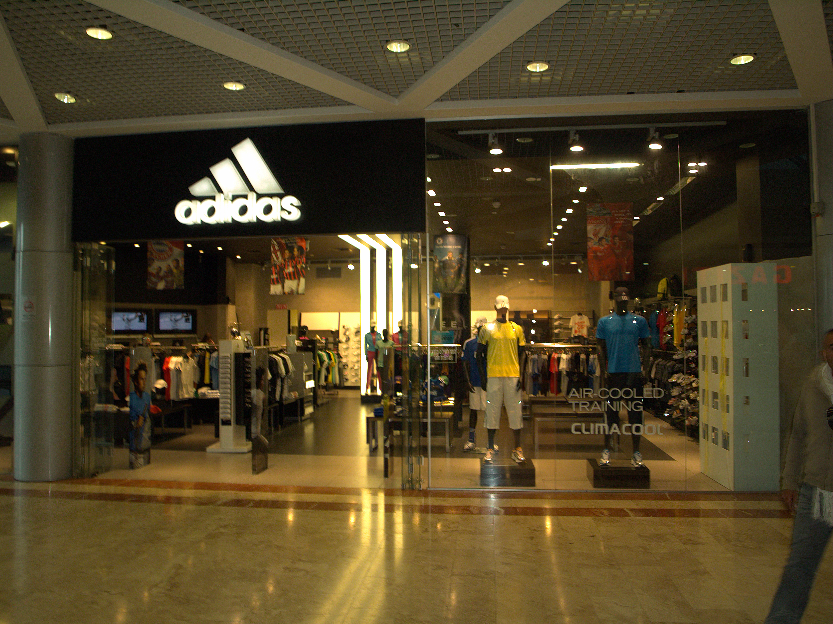 Adidas store in Tel Aviv, Israel.